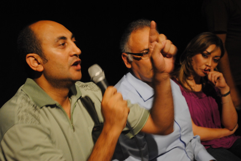 Lawyer Khaled Ali, one of the speakers @ Tweet Nadwa